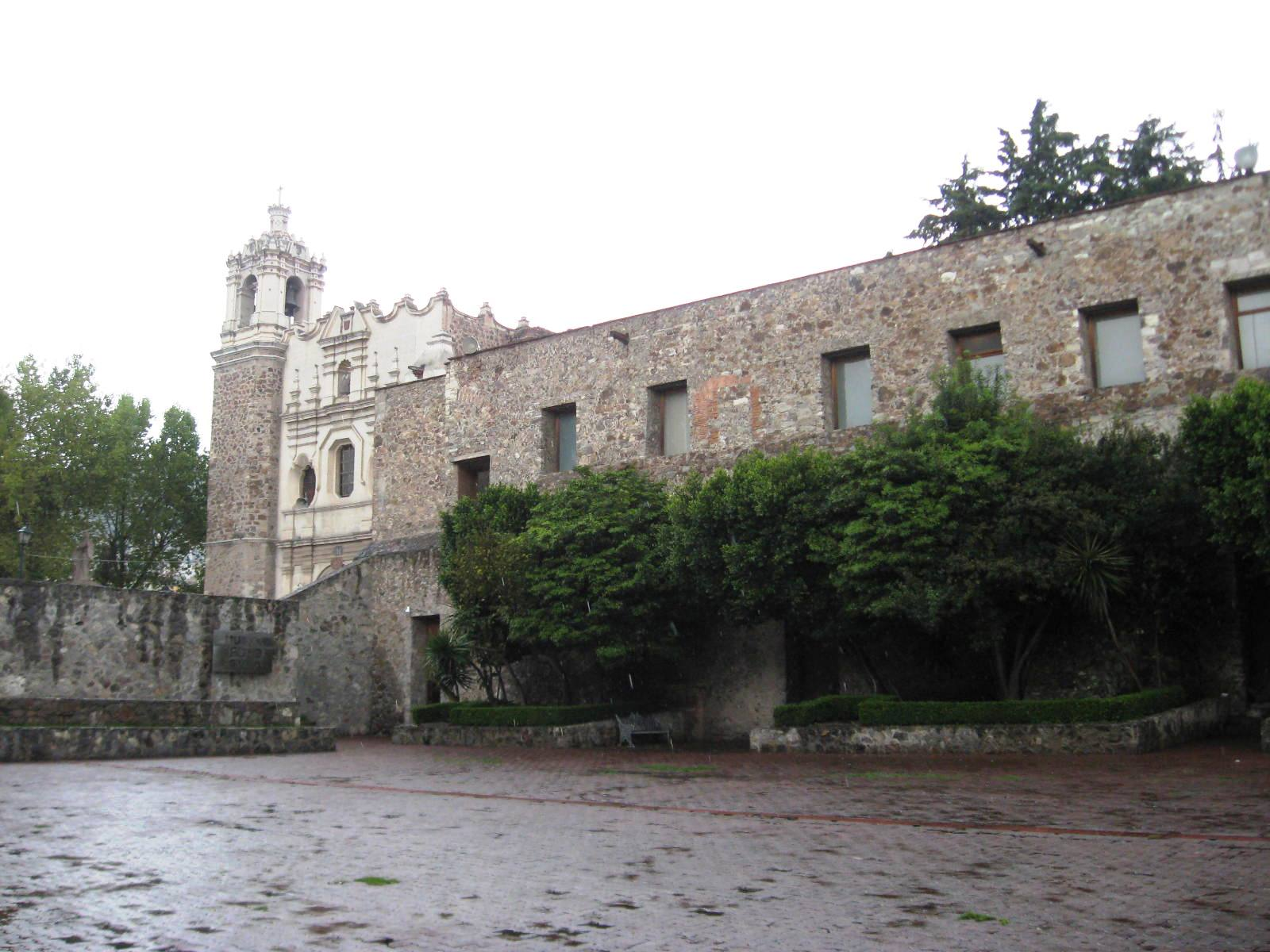 Overall view of Ex Convent of San Francisco located on Morelos Street in Pachuca